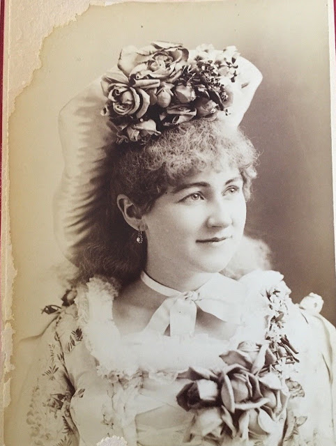 Adelaide Randall, US opera singer, 1852?-1933; photograph from 1880s